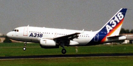 Airbus A318 at ILA 2002 in Berlin